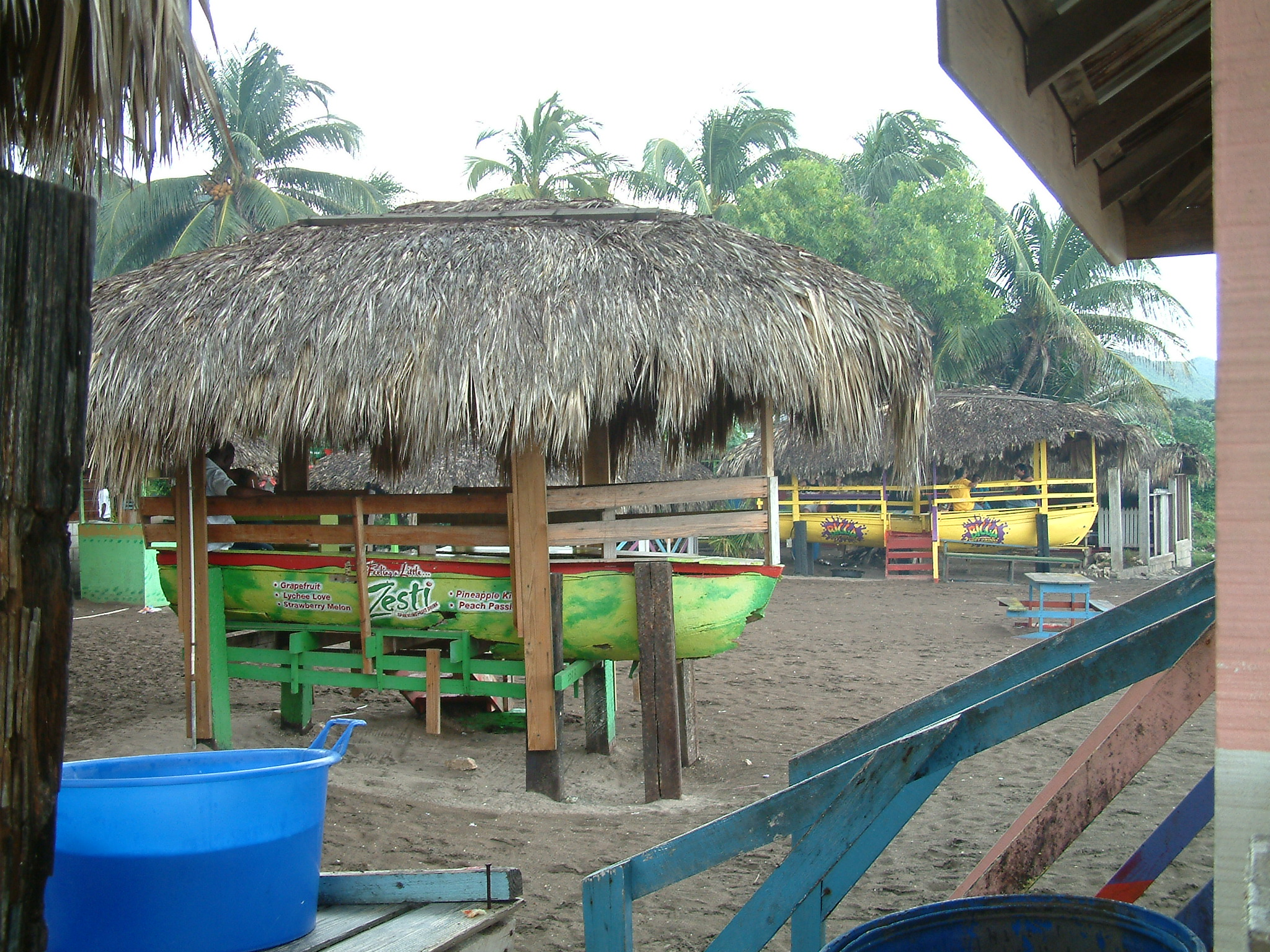 The Little Ochie Restaurant with Dining Tables in canoes with thatched roofs.